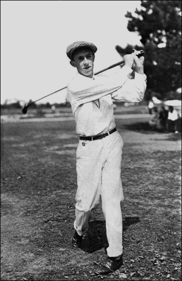 Francis Ouimet during his famous 1913 U.S. Open win.